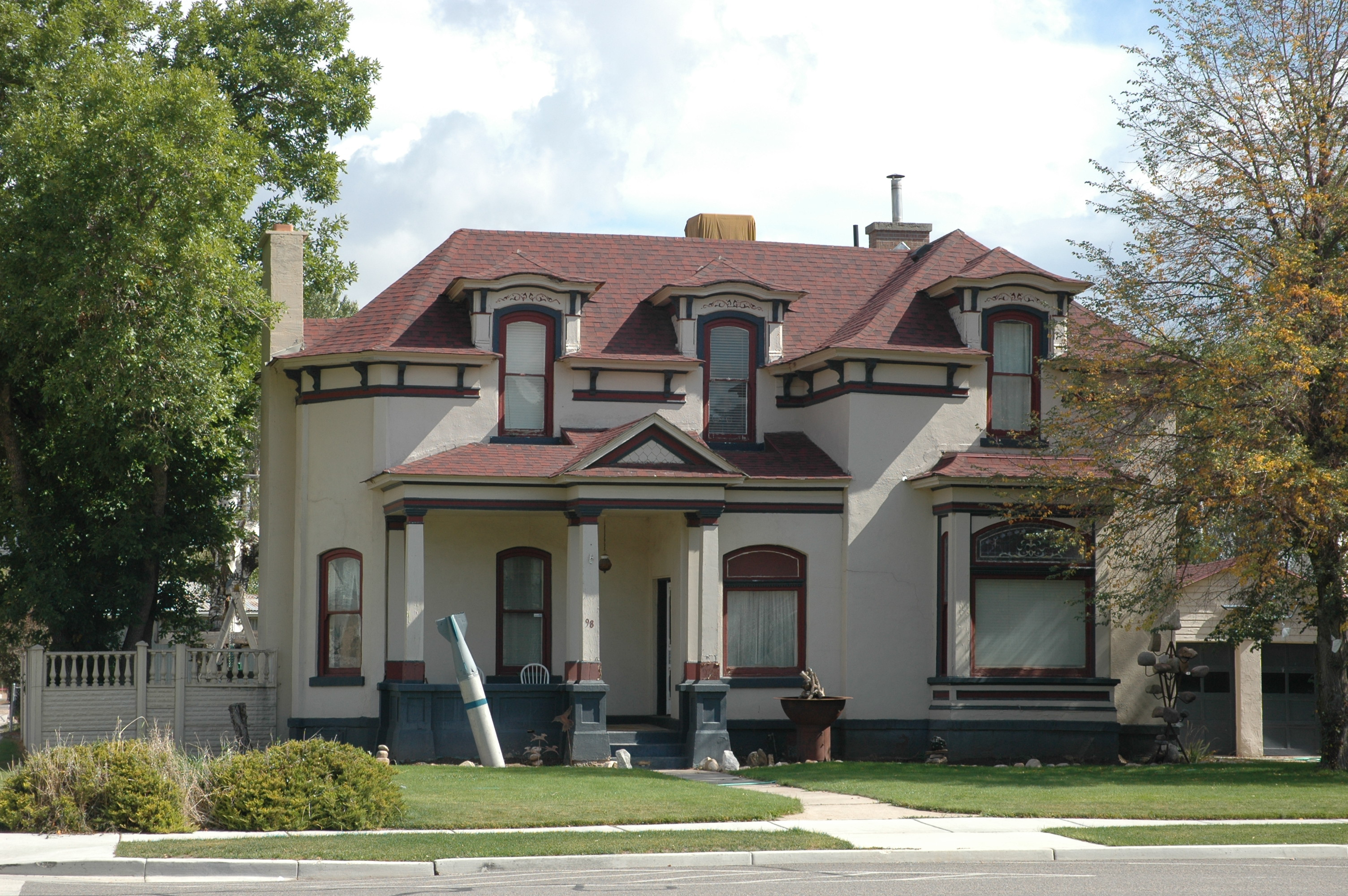 The Thomas L. Allen House, a historic home in Coalville, Utah, United States.